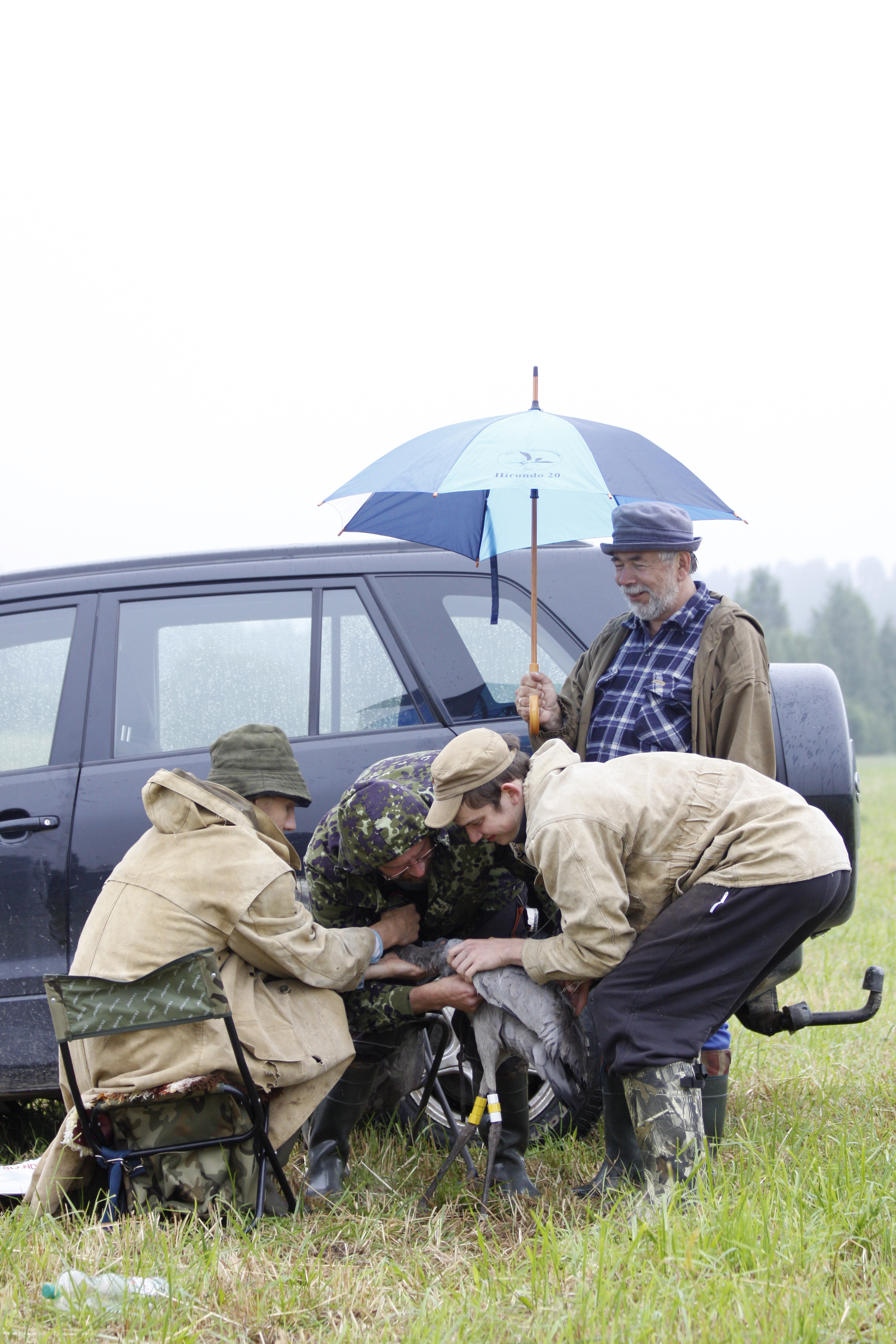 Attaching a GPS device to a common crane (Grus grus) under Estonian University of Life Sciences research project that is lead by Aivar Leito. People on the photo are Uku Bleive, Urmas Sellis, Ott Sellis and Aivar Leito.